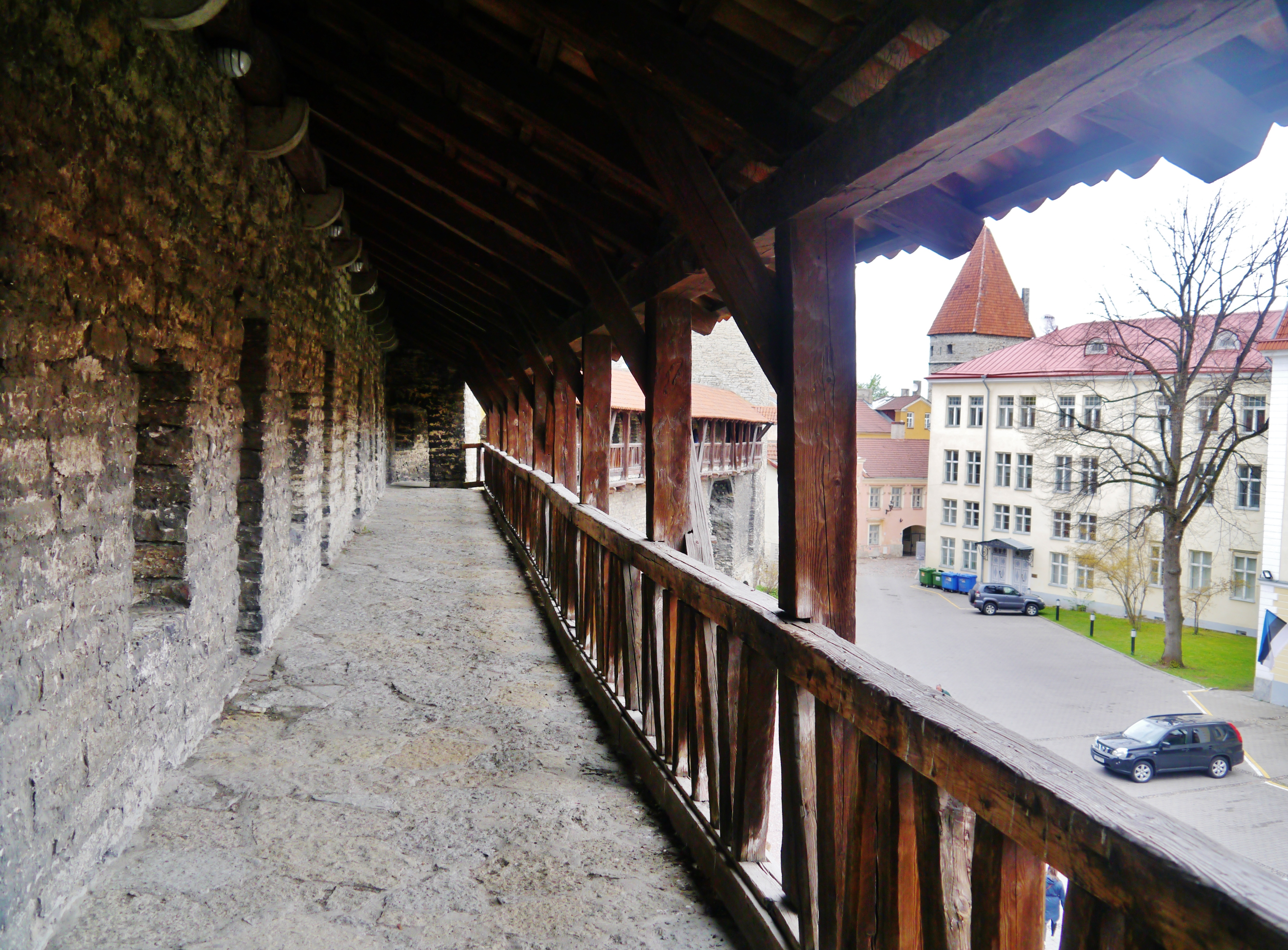 City Walls, Tallinn, Estonia